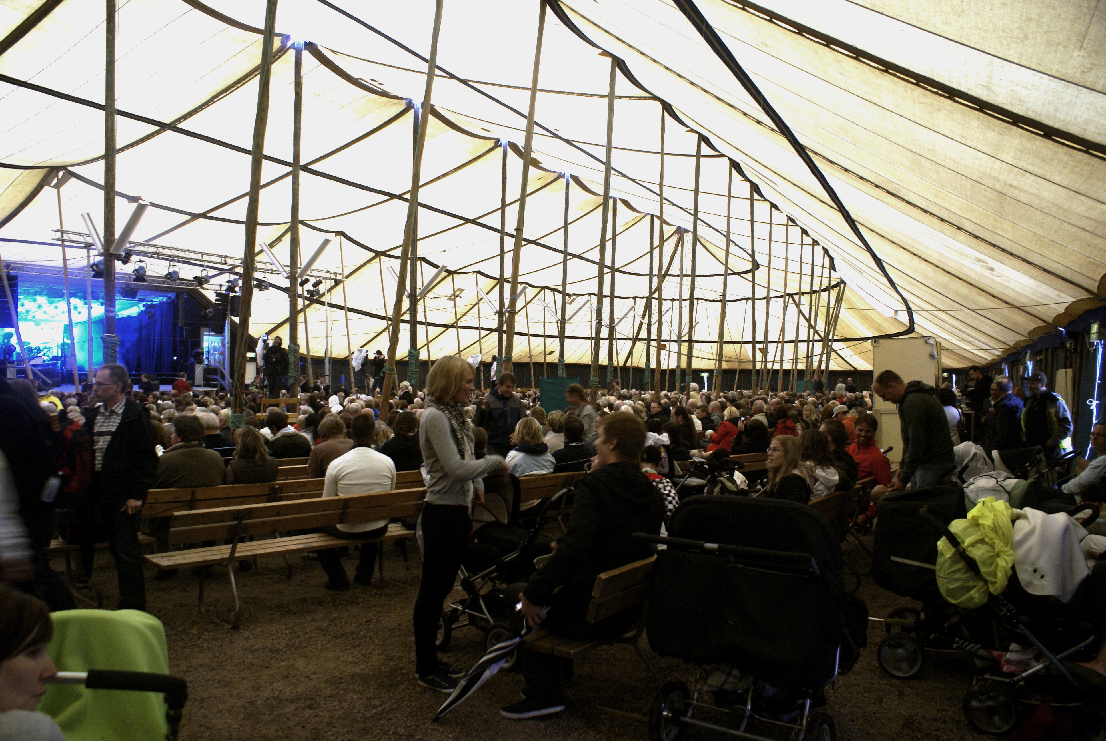 Inside the big tent on Nyhemsveckan